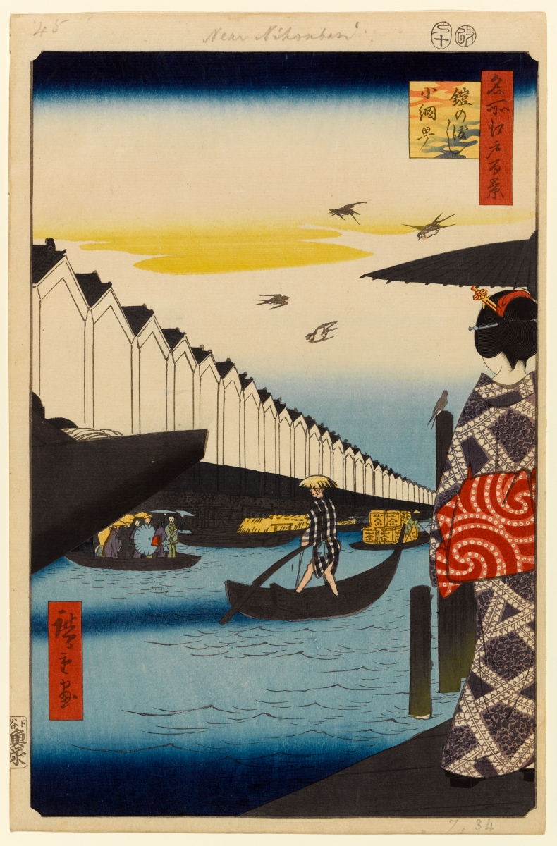 Part of the series One Hundred Famous Views of Edo, no. 046, part 2: Summer.